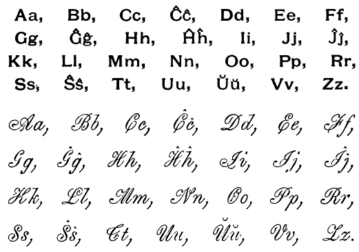 Alphabet of Esperanto.